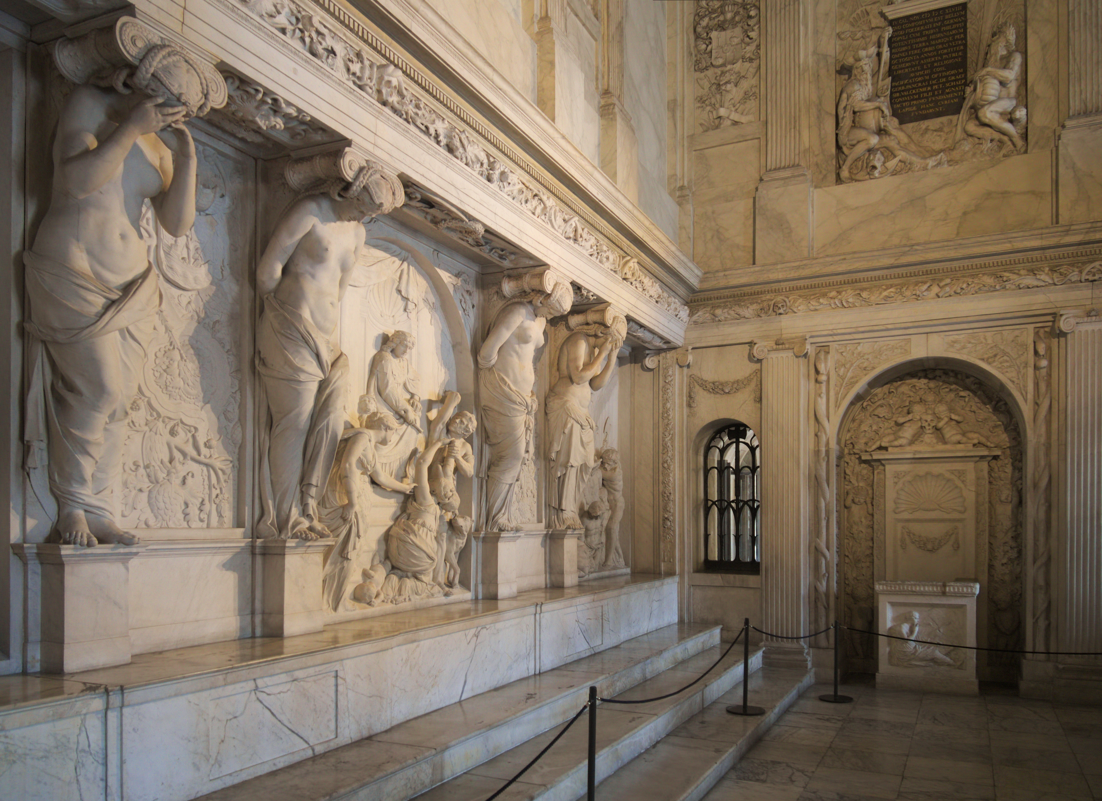 Royal Palace of Amsterdam - execution room.